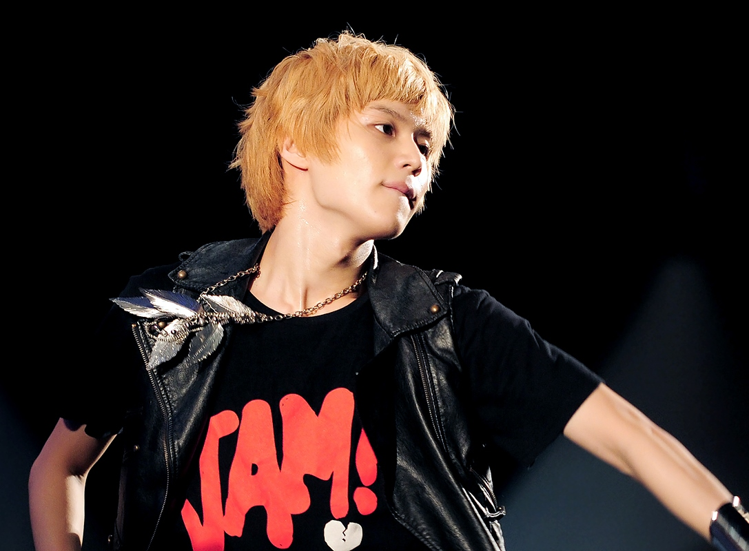 Taemin at World Percussion Festival in Sacheon on August 4, 2011.